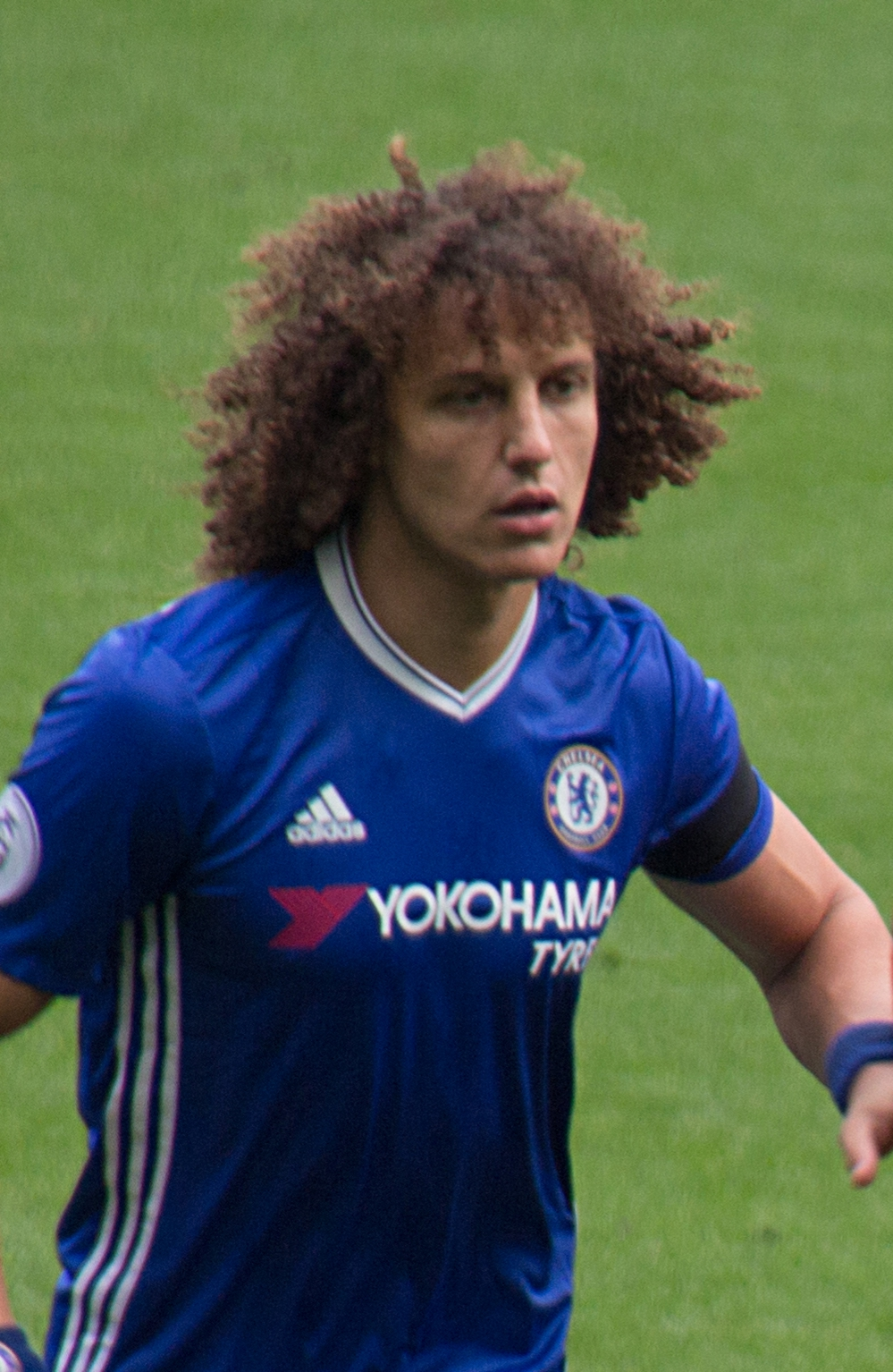 Chelsea 3 Leicester 0 15.10.16